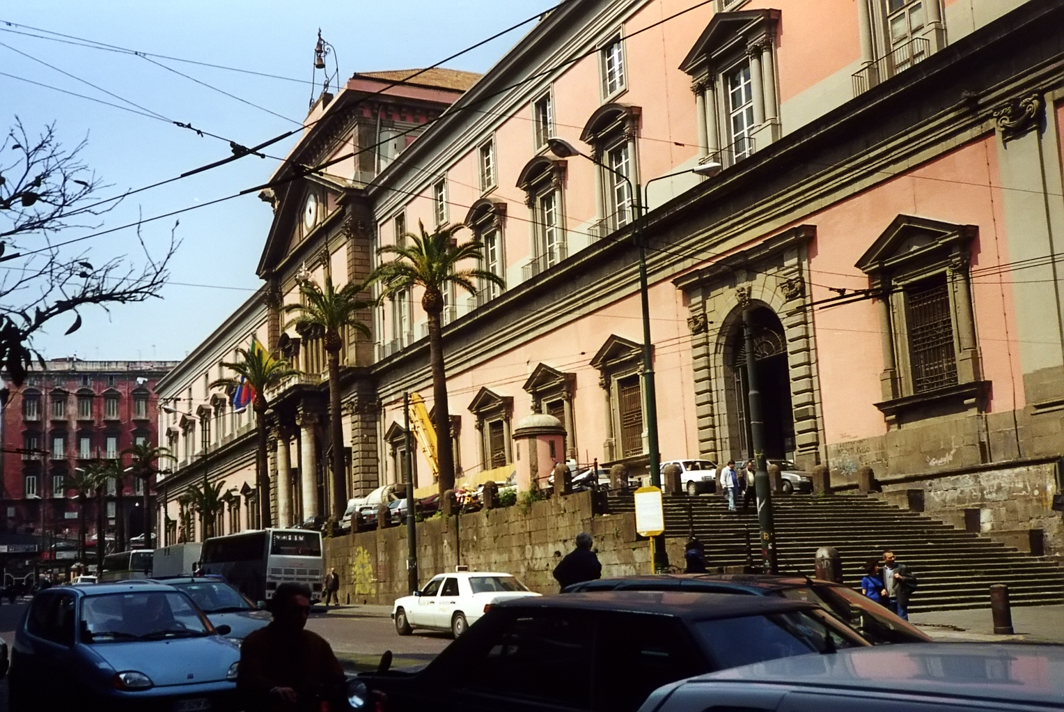 The archeological museum of Naples.